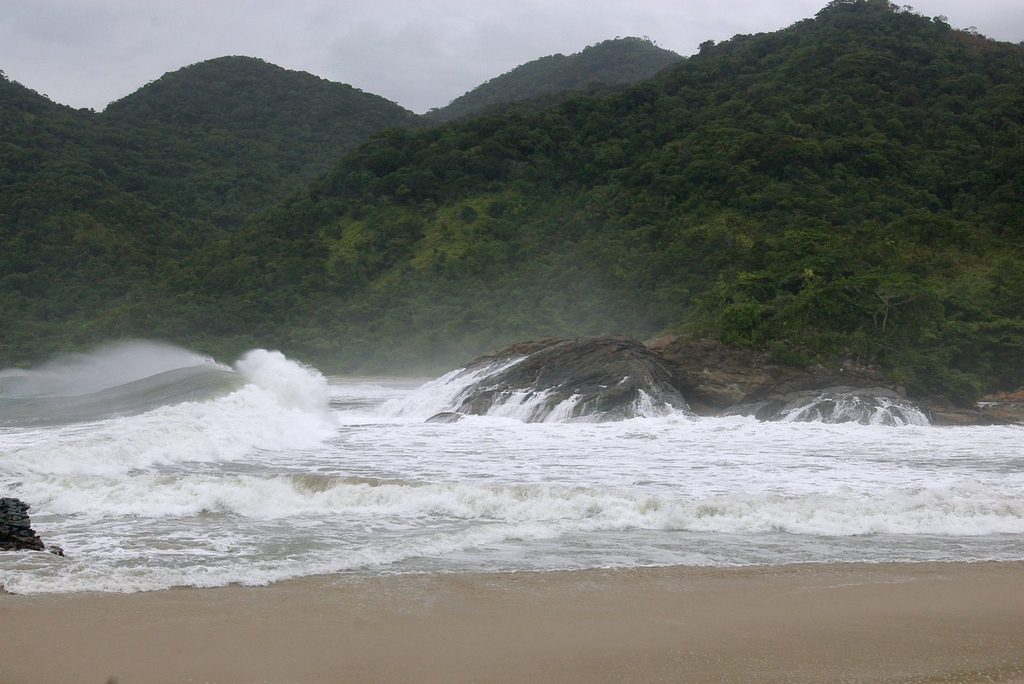 Serra da Bocaina National Park, in Paraty, Brazil. Trindade beach